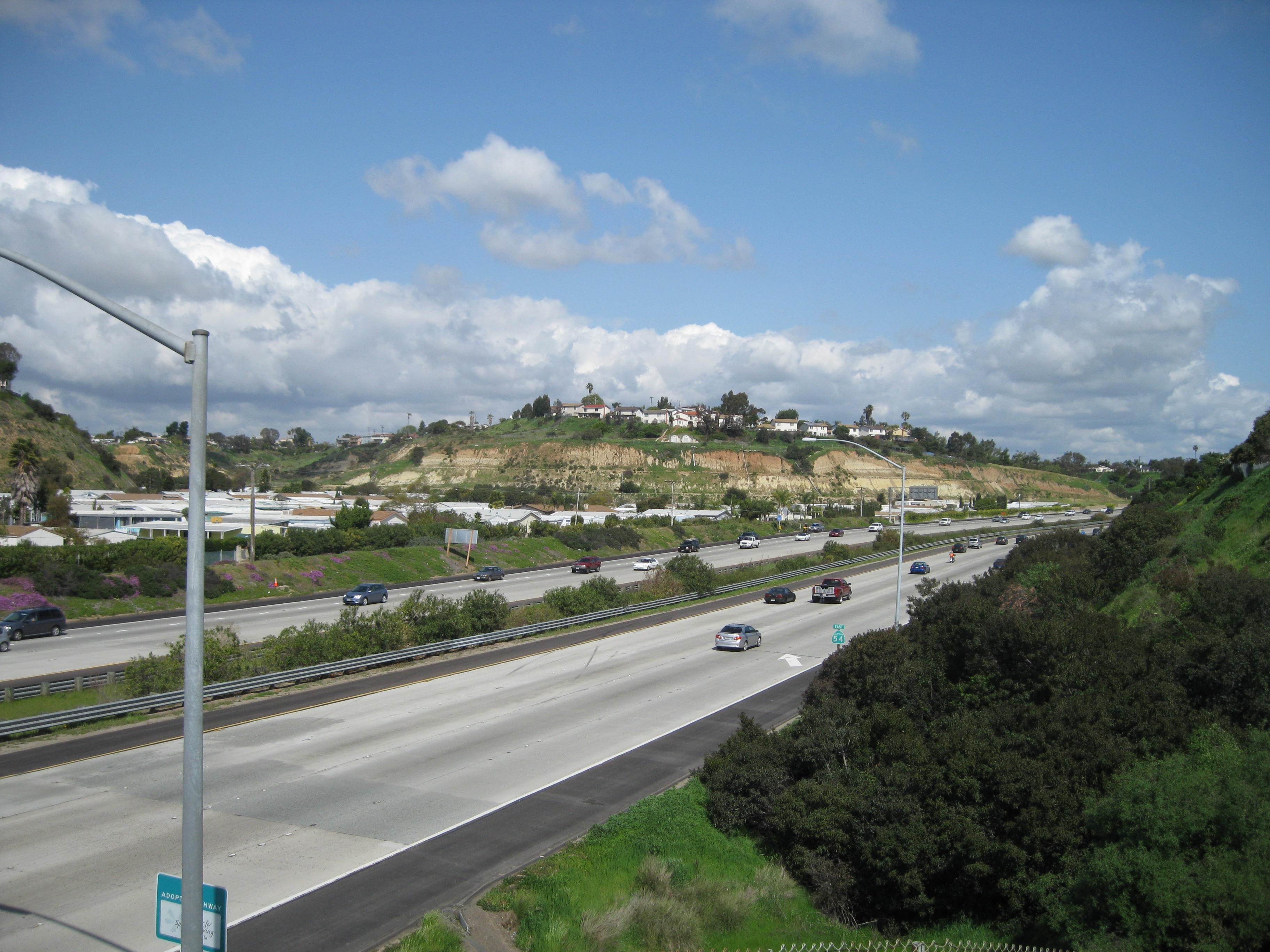 California State Route 54 east of I-805